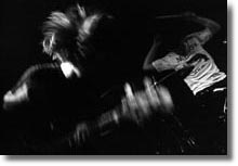 Steel Pole Bath Tub playing live in Germany